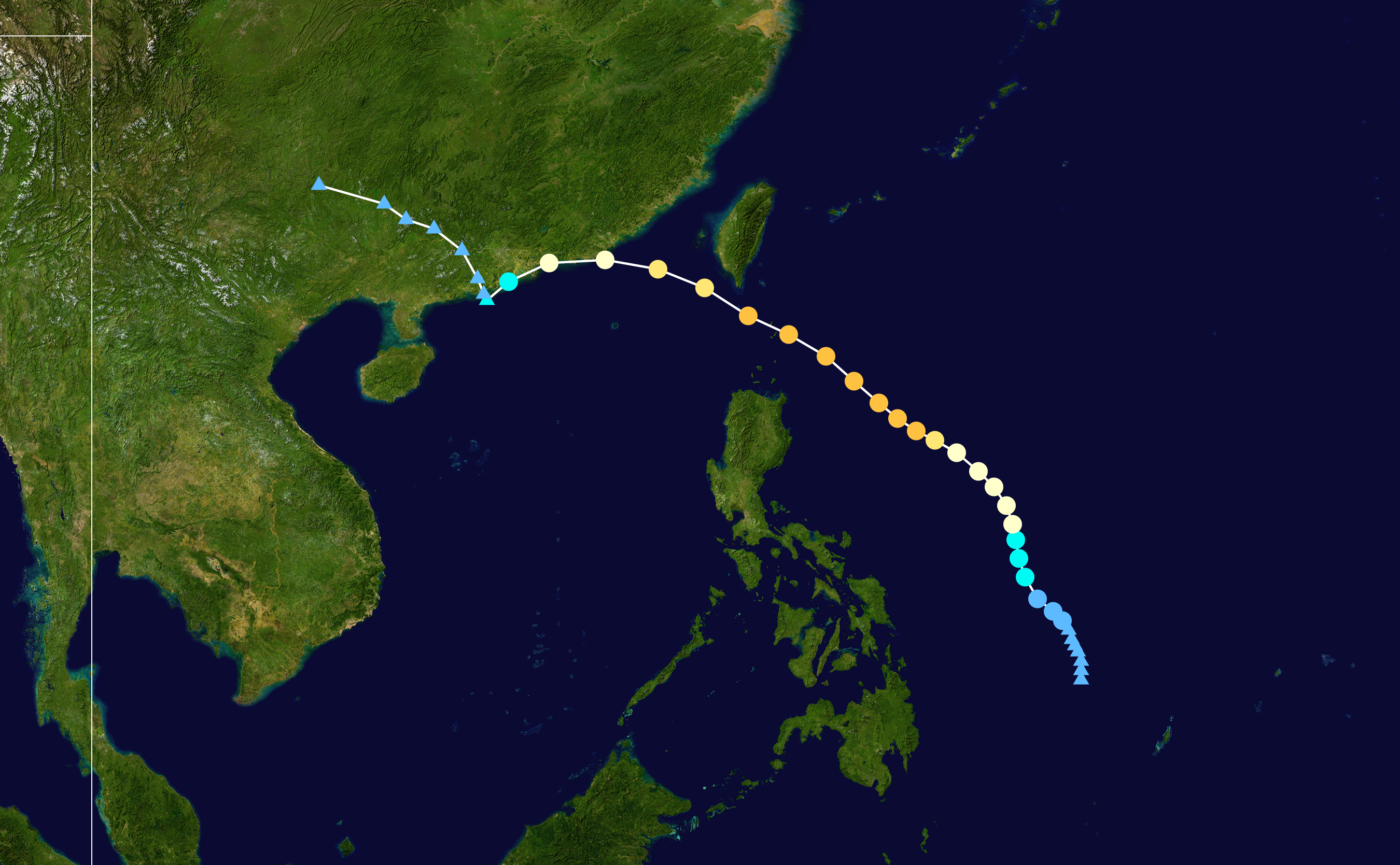 Track map of Typhoon Maggie of the 1999 Pacific typhoon season. The points show the location of the storm at 6-hour intervals. The colour represents the storm's maximum sustained wind speeds as classified in the Saffir–Simpson scale (see below), and the shape of the data points represent the nature of the storm, according to the legend below. Saffir–Simpson scale Tropical depression≤38 mph≤62 km/h Category 3111–129 mph178–208 km/h Tropical storm39–73 mph63–118 km/h Category 4130–156 mph209–251 km/h Category 174–95 mph119–153 km/h Category 5≥157 mph≥252 km/h Category 296–110 mph154–177 km/h Unknown Storm type Tropical cyclone Subtropical cyclone Extratropical cyclone / Remnant low / Tropical disturbance / Monsoon depression